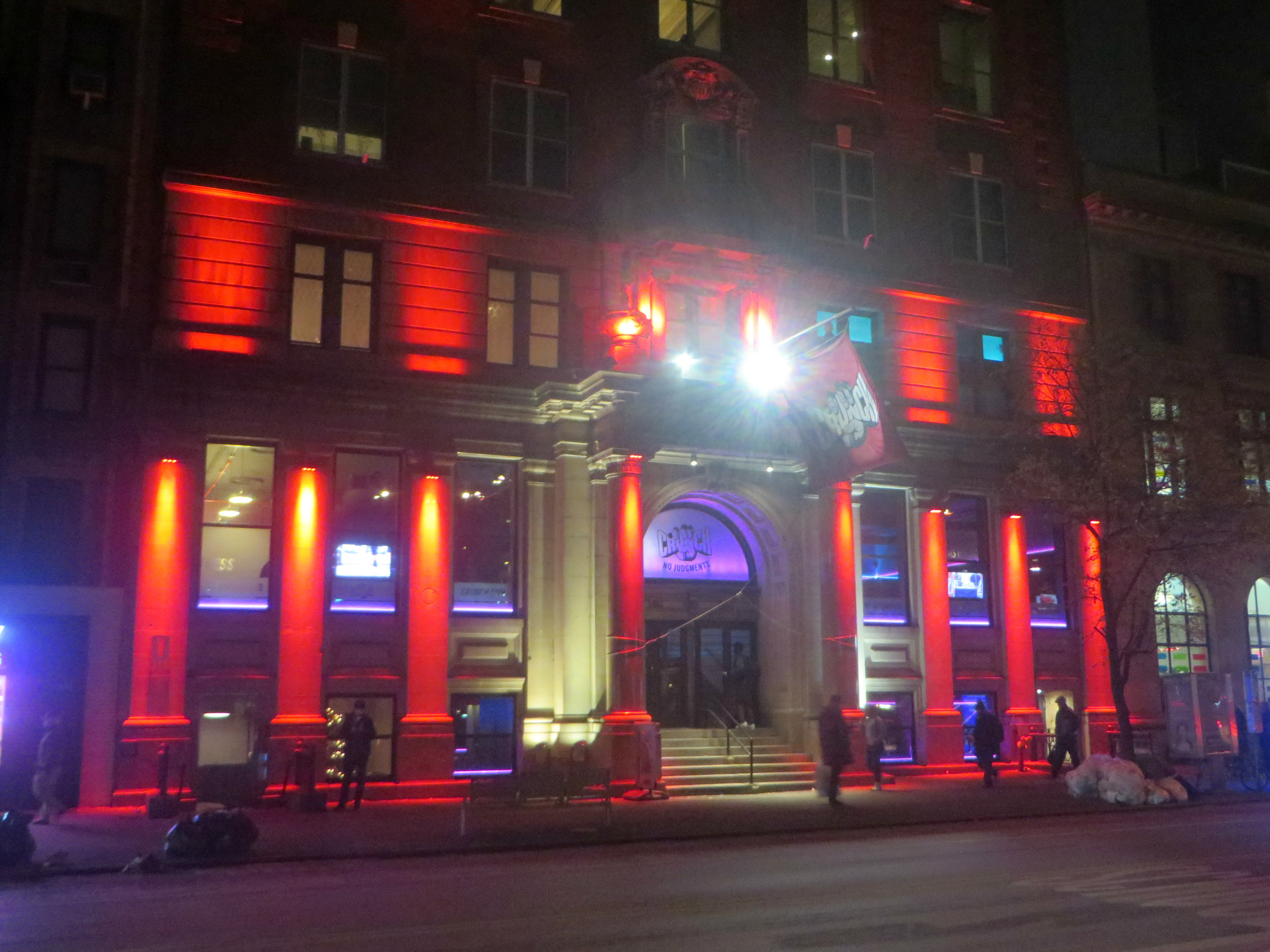 Exterior view of a Crunch Fitness (formerly the McBurney YMCA building) in 2017.